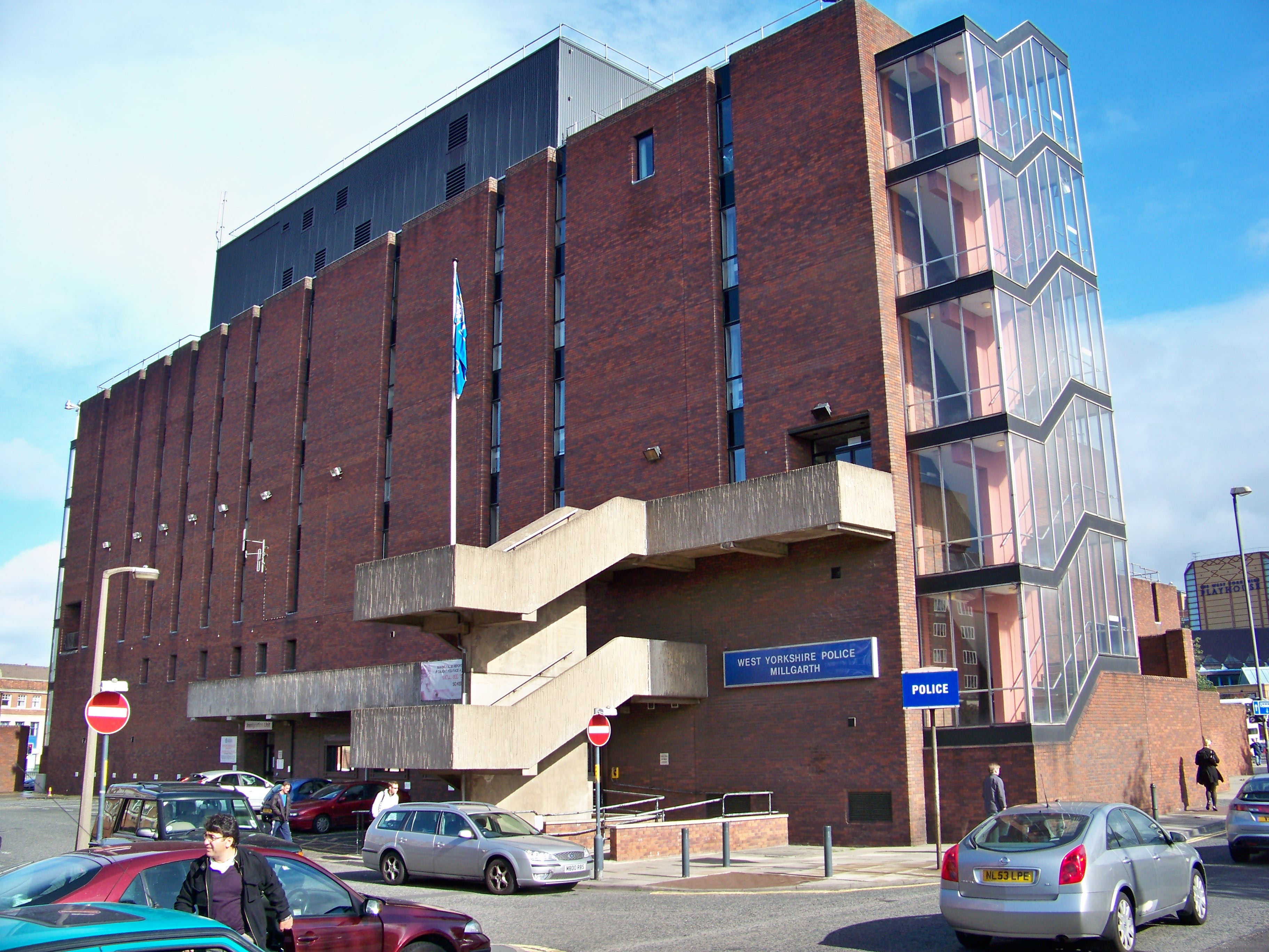 Millgarth Police Station in Leeds. Taken on the afternoon of Saturday the 3rd October 2009.